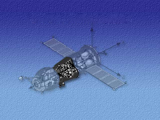 This graphic highlights the Soyuz spacecraft's Descent Module.